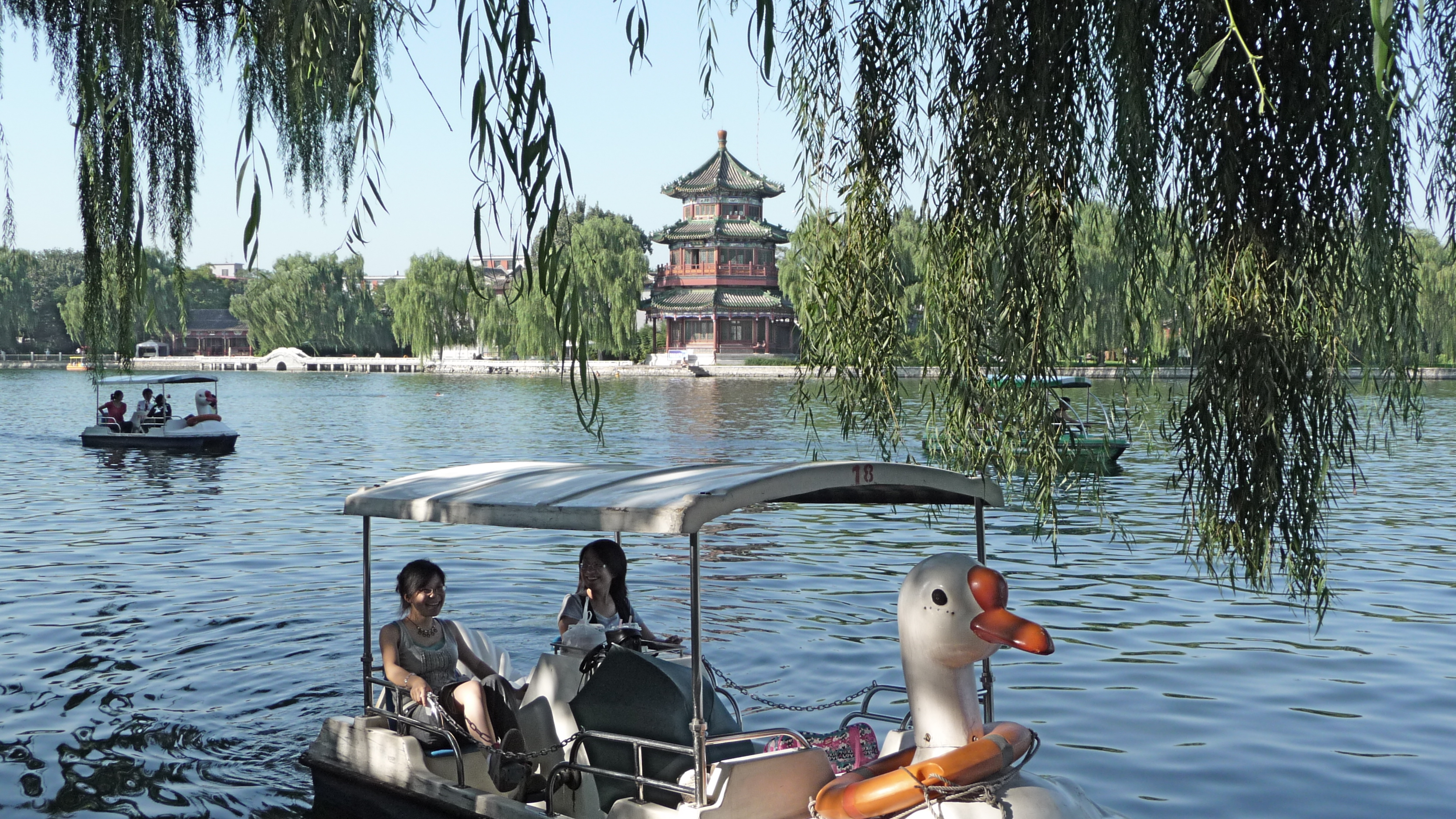 View of the Shichahai lake in central Beijing near the Forbidden City